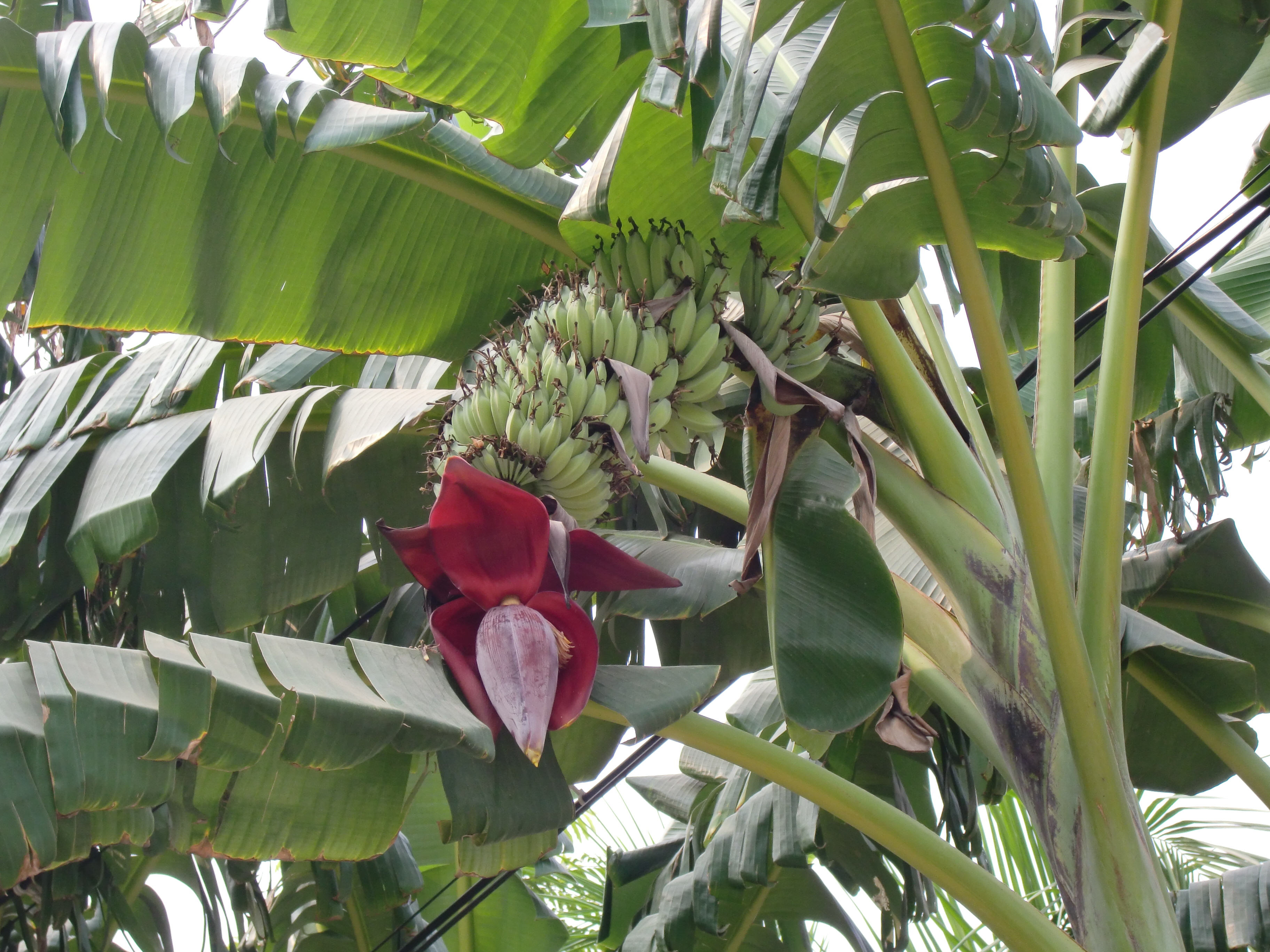 The blossom ob banana gurgaon India